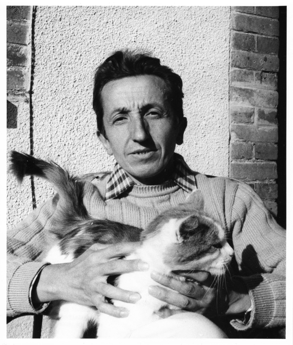 A black and white photo of the 20th century French painter Francois Fiedler with his cat